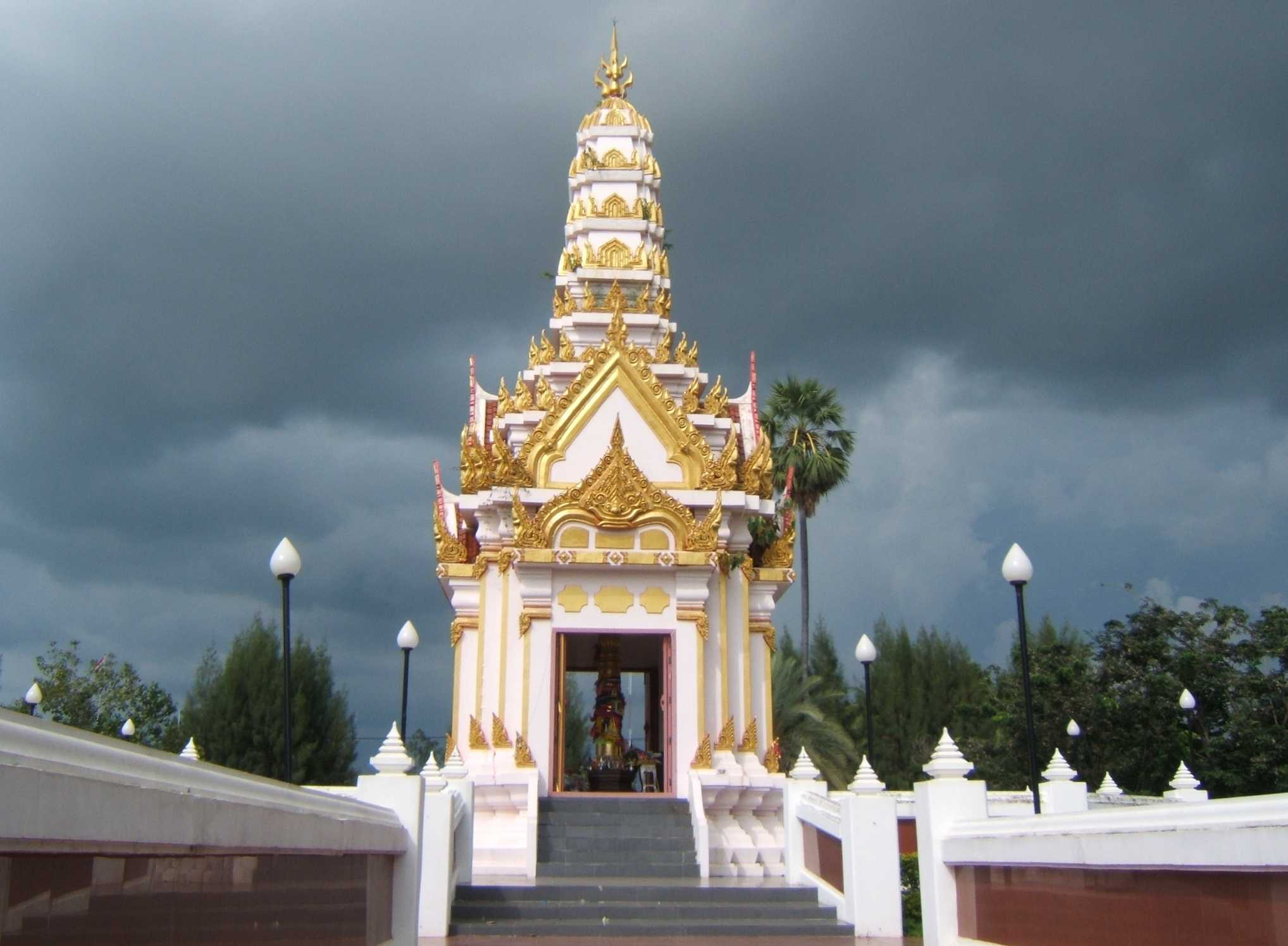 City pillar shrine in Phitsanulok, Thailand Author: me, Michael Brueckner / Oct. 3, 2005